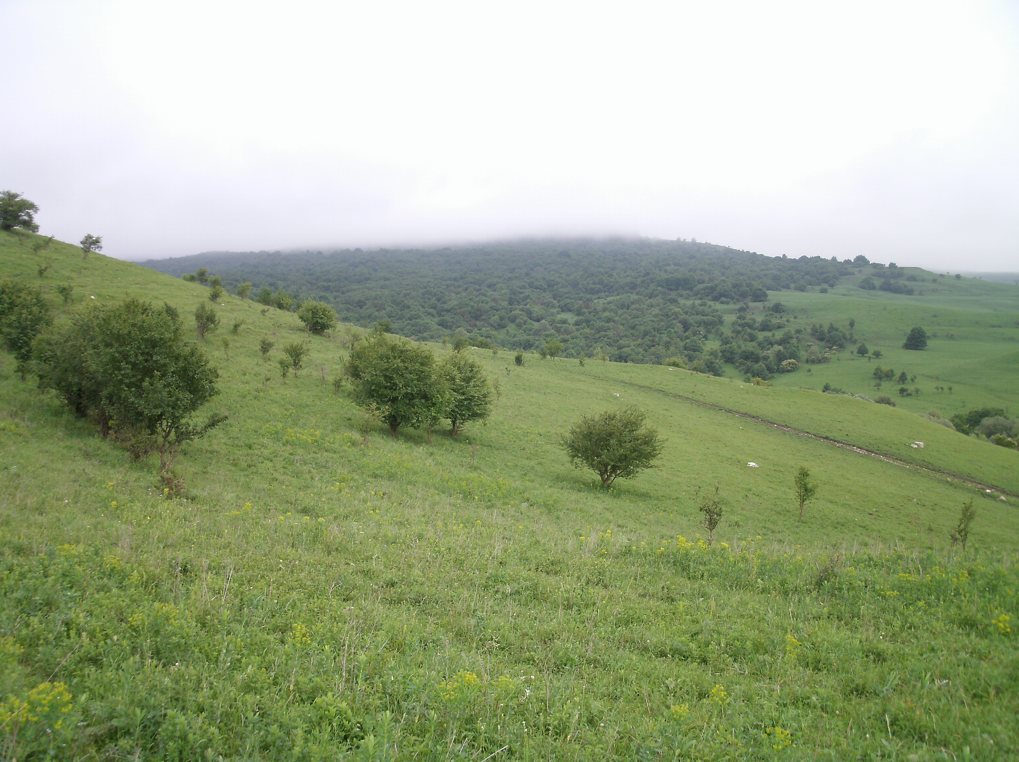 Grove yew berry in Ispravnaya forestry